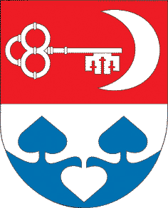 Coat of Arms of VG Bode-Holtemme